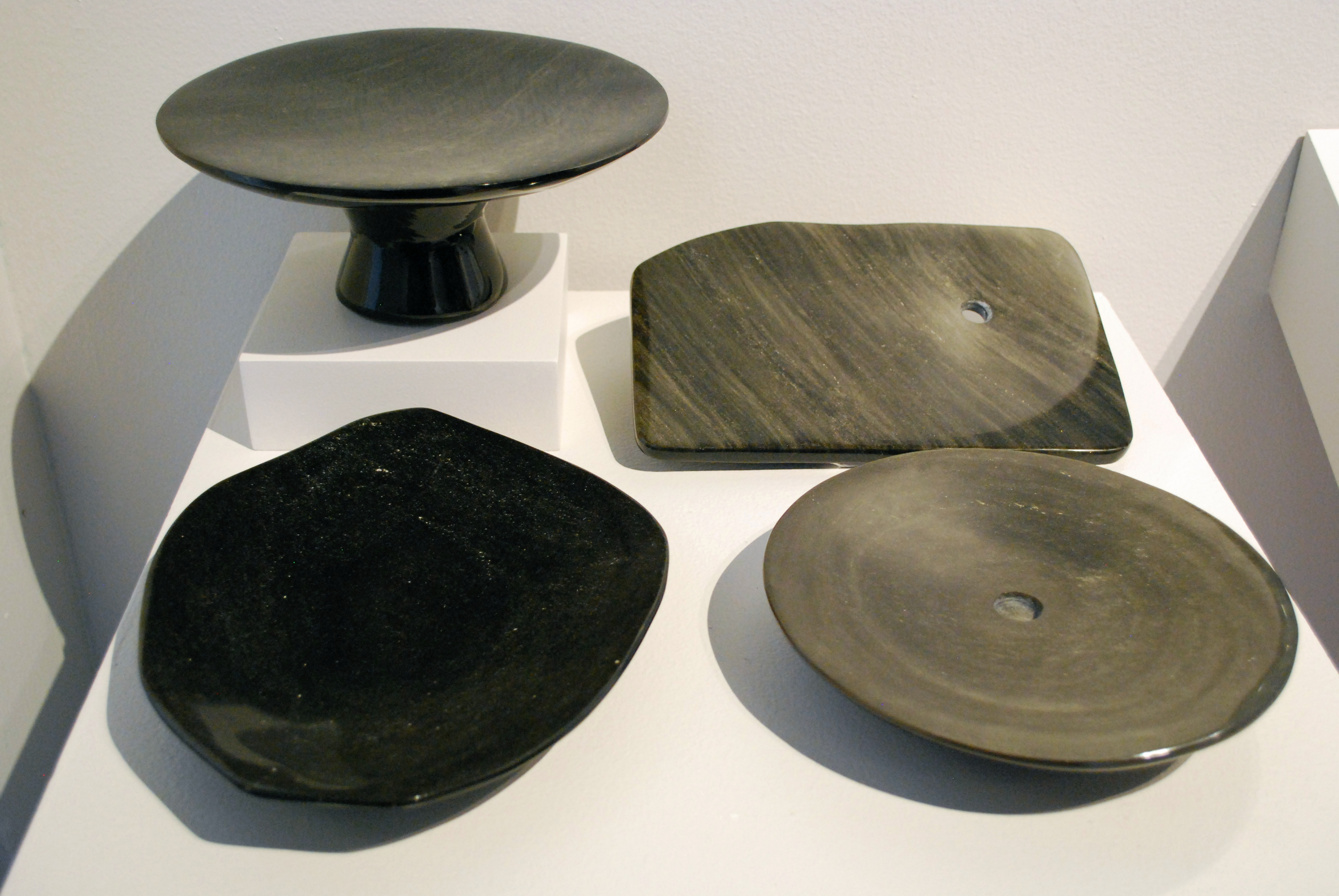 Obsidian plates and other wares by Victor Lopez Pelcastre of Nopalillo, Epazoyucan, Hidalgo as part of a temporary exhibition of crafts from the state at the Museo de Arte Popular, Mexico City